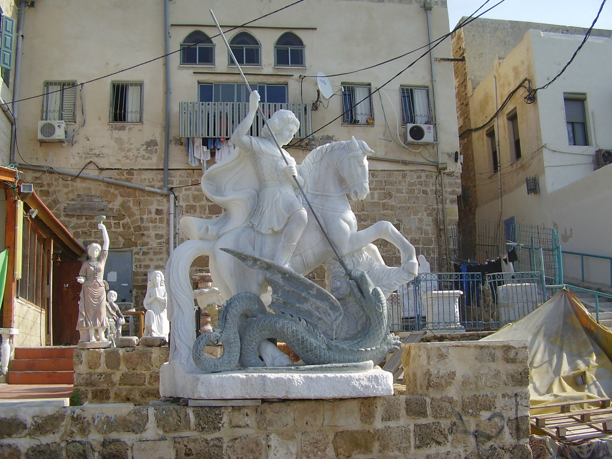 St. George sculpture in Acre